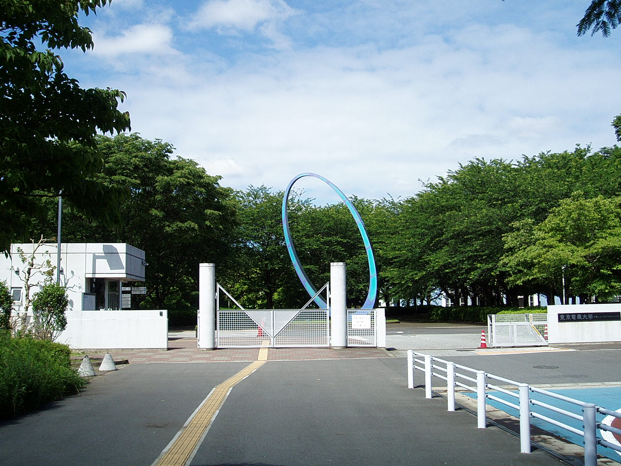 The main entrance to Chiba New Town Campus, Tokyo Denki University, located in Inzai, Chiba Prefecture, Japan.